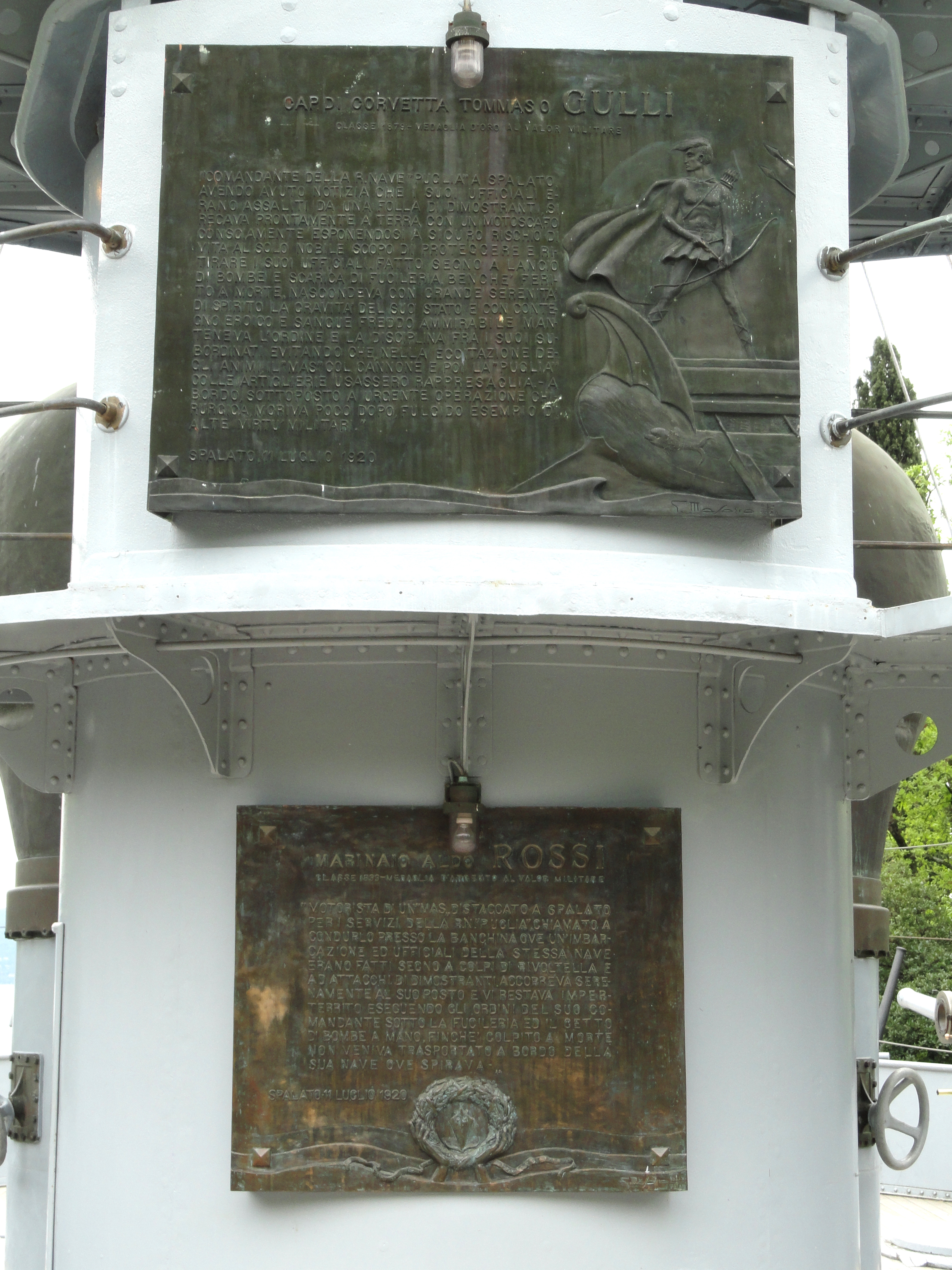 The light cruiser Puglia, at the Vittoriale degli italiani, in Gardone Riviera, on Lake Garda, Brescia, Italy.